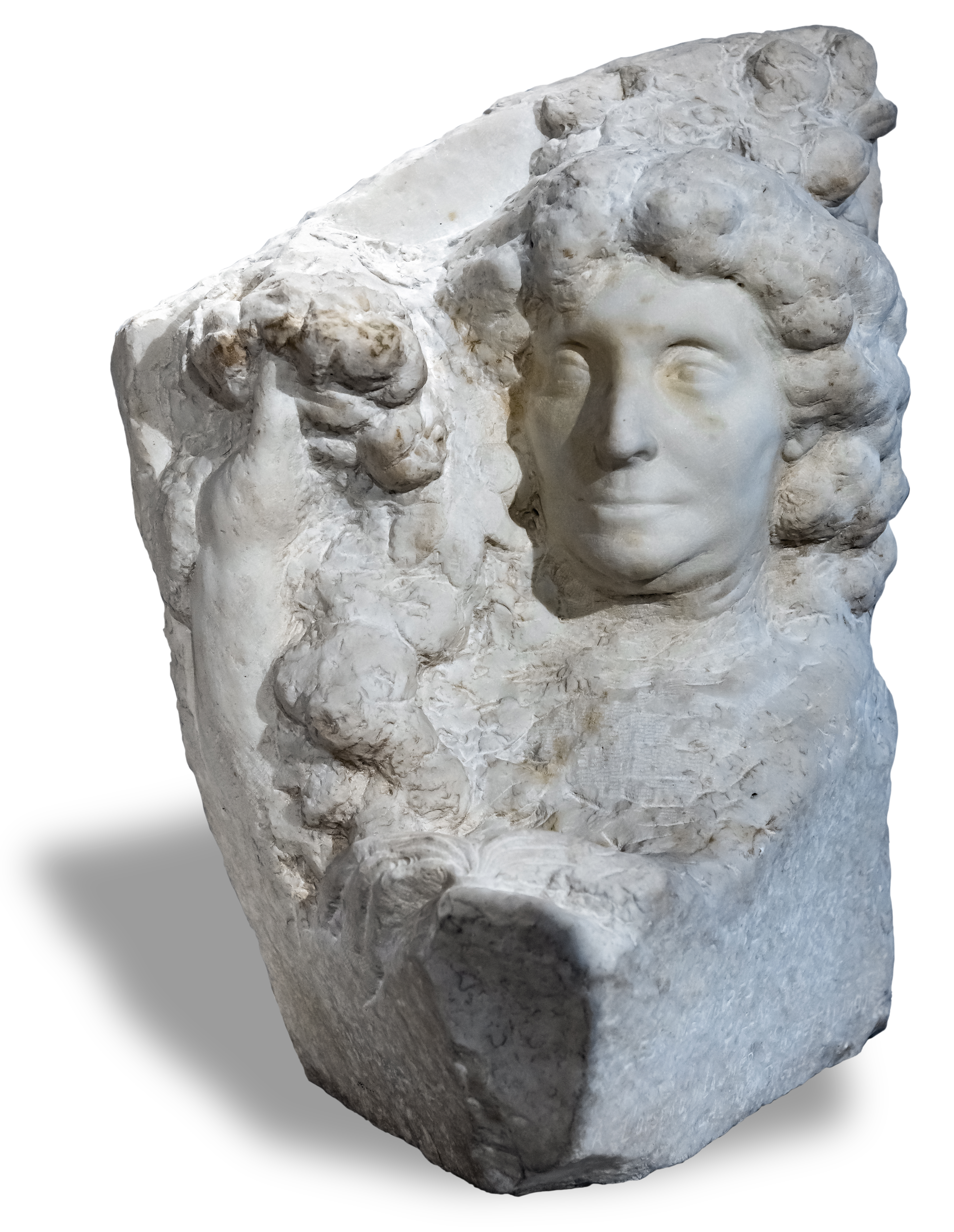 Depicted person: Athénaïs Michelet – French writer